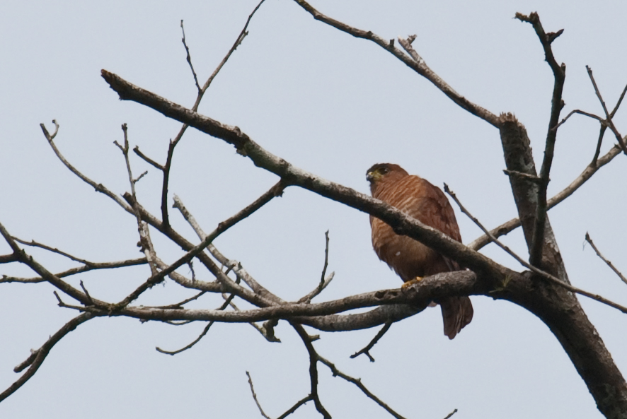 Tiny Hawk on Botrosa Road near Oja Blanco, Esmereldas, Ecuador.